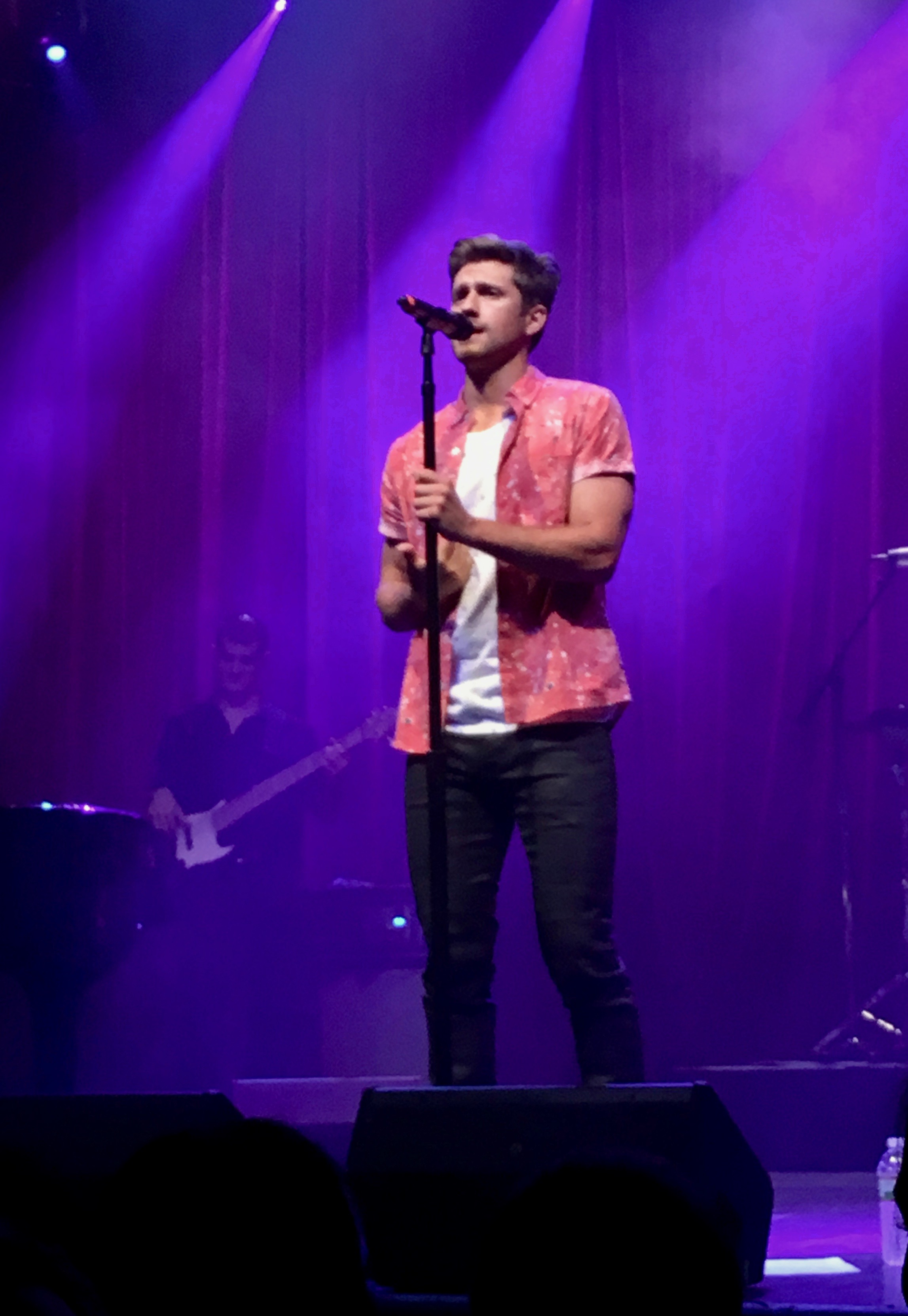 Aaron Tveit performing in concert at the House of Blues Boston in 2016